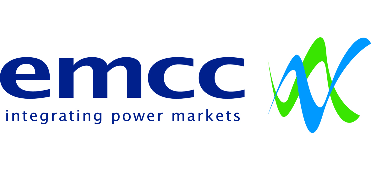 Logotype European Market Coupling Company "EMCC - integrating power markets"